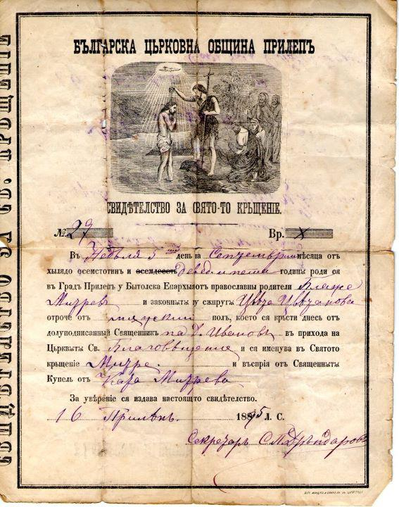 Mitre Mitrev Birth Cetificate 1895